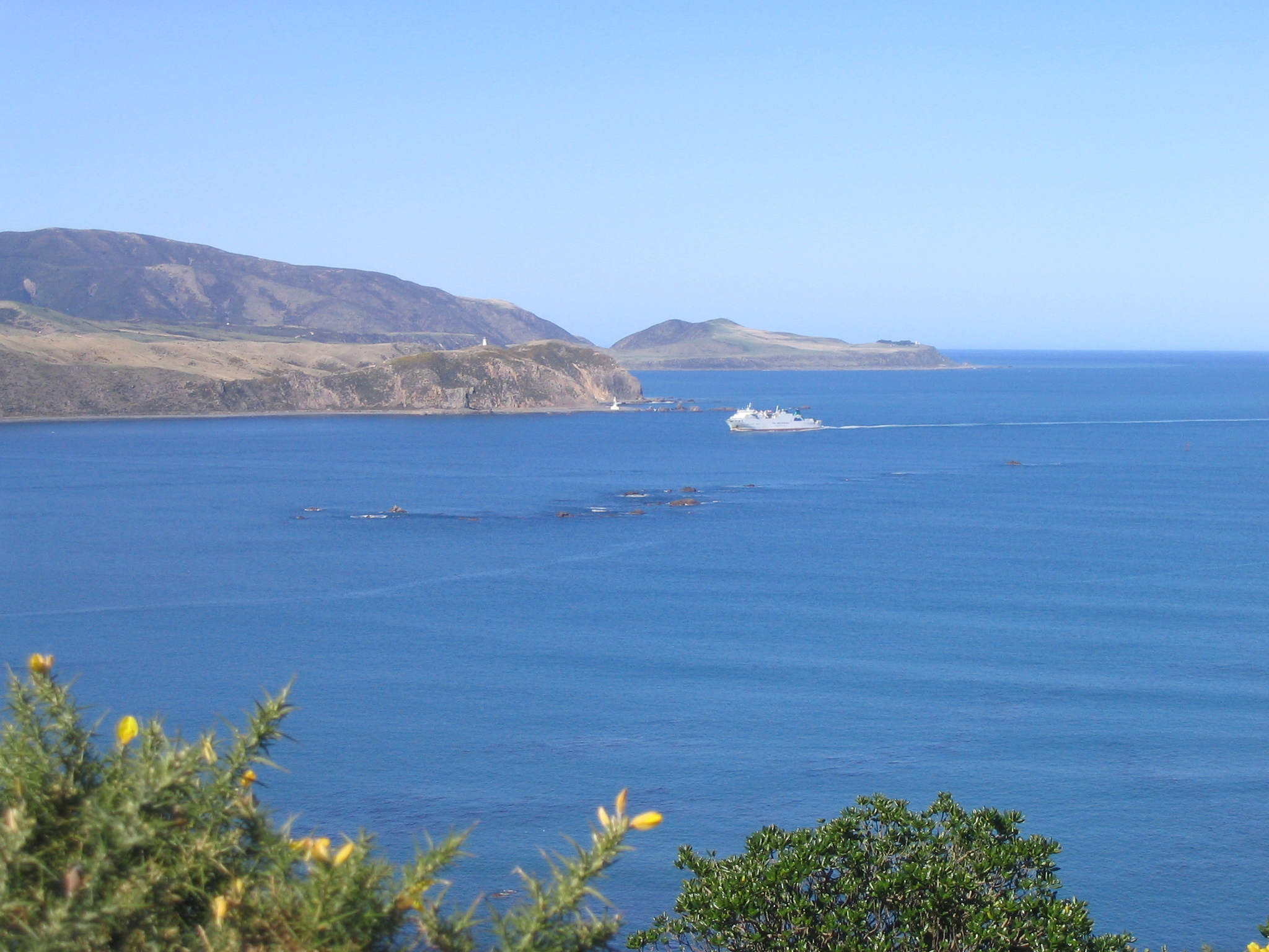 View of Barrett Reef taken from the western shore of the entrance to Wellington Harbour (New Zealand). The inter-island ferry Aratere is just about to enter the harbour. The rocks of Barrett Reef are visible above the water.